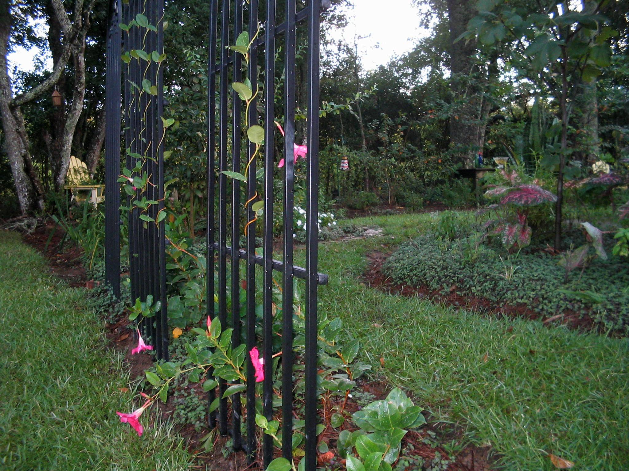 A trellis for plants